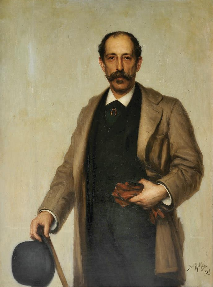 João Filipe Osório de Meneses Pita (1856-1925), 2nd Viscount and 2nd Count of Proença-a-Velha.